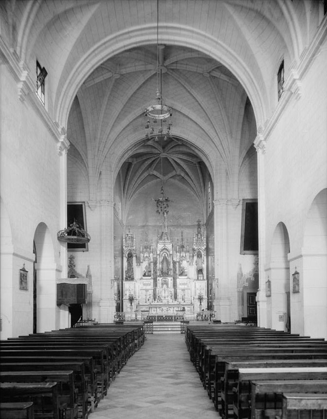 Interior view of the Iglesia San Jose